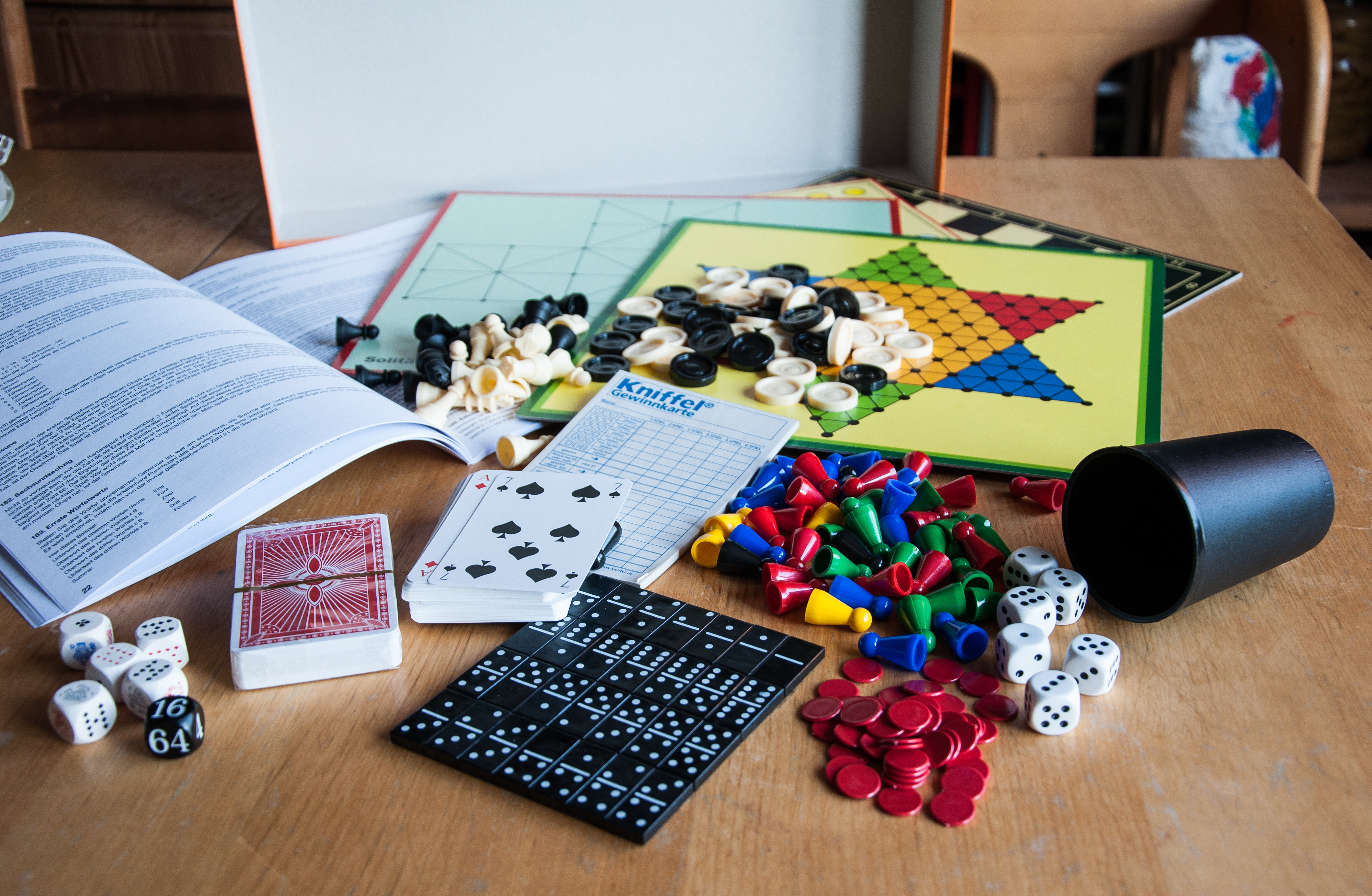 Collection of games: board games, card games and dice games